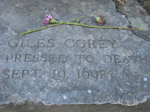 Memorial marker in the Salem cemetery for Giles Corey.